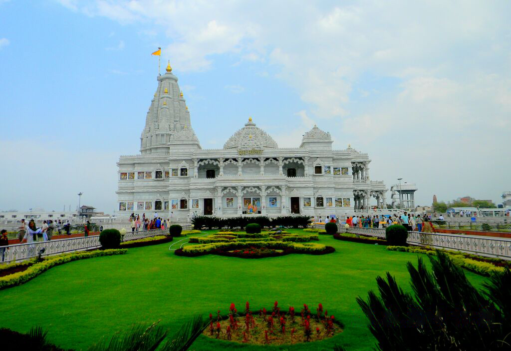 View of Prem Mandir from Main Gate.